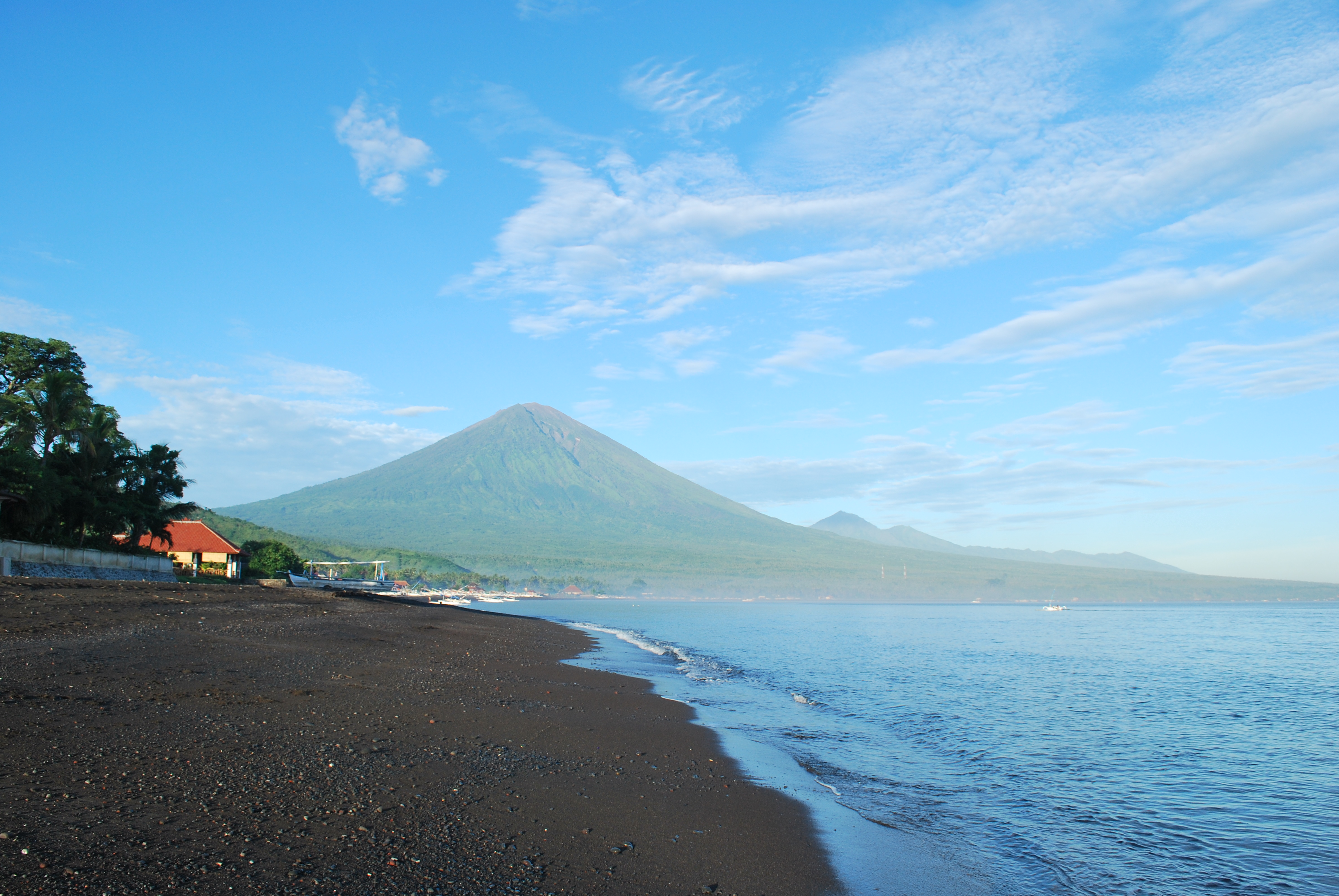 Mount Agung as seen from the East.